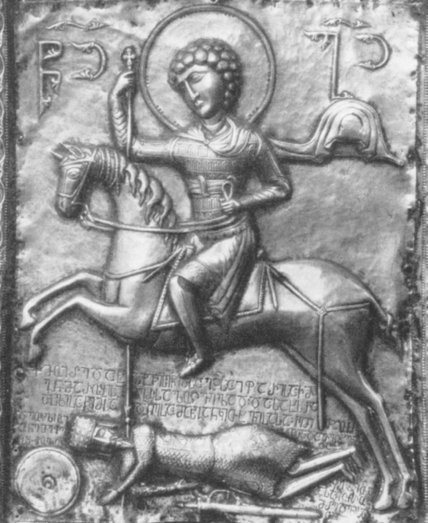 St. George of Ipari, early 11th century. "St. George of Ipari in the banded lamellar without riveting, after Chubinashvili (pl. 184). Also at the beginning of the 11th century the first specimens of banded lamellar appear. It is noteworthy that the Ipari icon of St George [fig.13], dating from the 1st quarter of the 11th century, shows banded lamellar plates without riveting. This icon, as well as the Labechina icon, representing St George on foot, and the Shodai icon of St George, make it clear that lamellar with riveting is not popular yet." Mamuka Tsurtsumia, The Evolution of Splint Armour in Georgia and Byzantium, Lamellar and Scale in the 10th-12th Centuries[1]